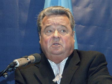 Ivan Plyushch, Ukrainian politician, at the congress of Ukrainian People's Block of Kostenko and Plyusch